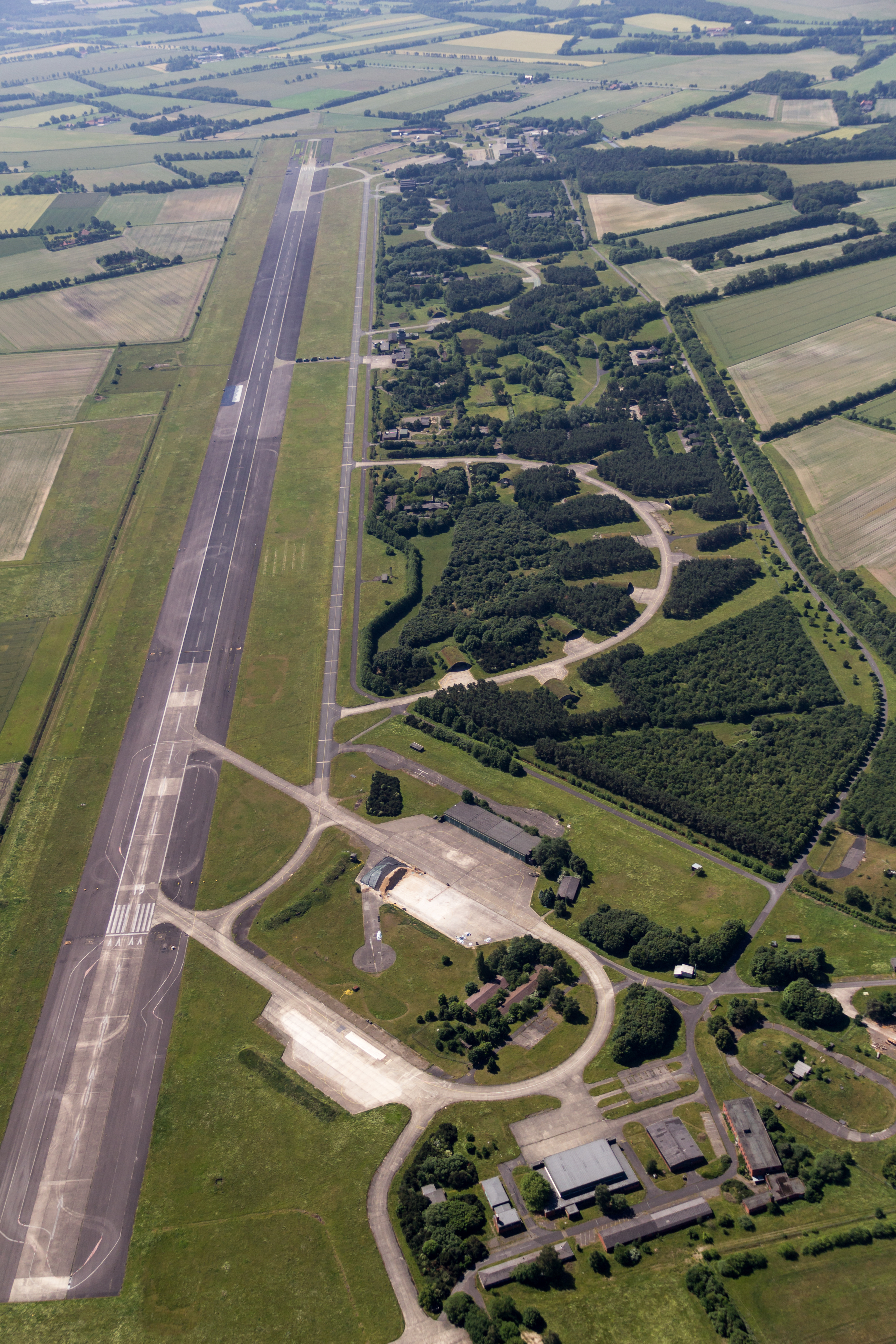 Former Airfield, Dreierwalde, Hörstel, North Rhine-Westphalia, Germany